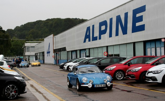 Usine Avenue de Bréauté